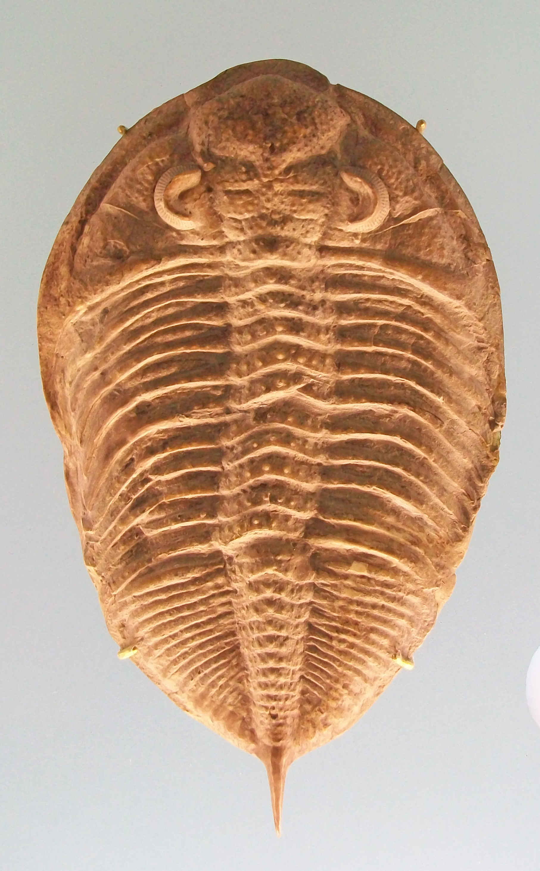 Fossil of Glyptambon verrucosus in the Field Museum of Natural History.